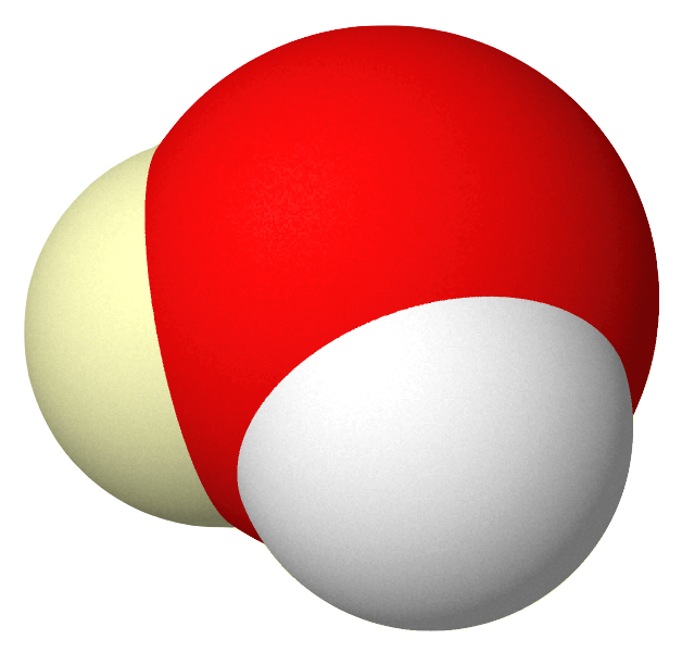 3D Space-filling Model of Semiheavy water